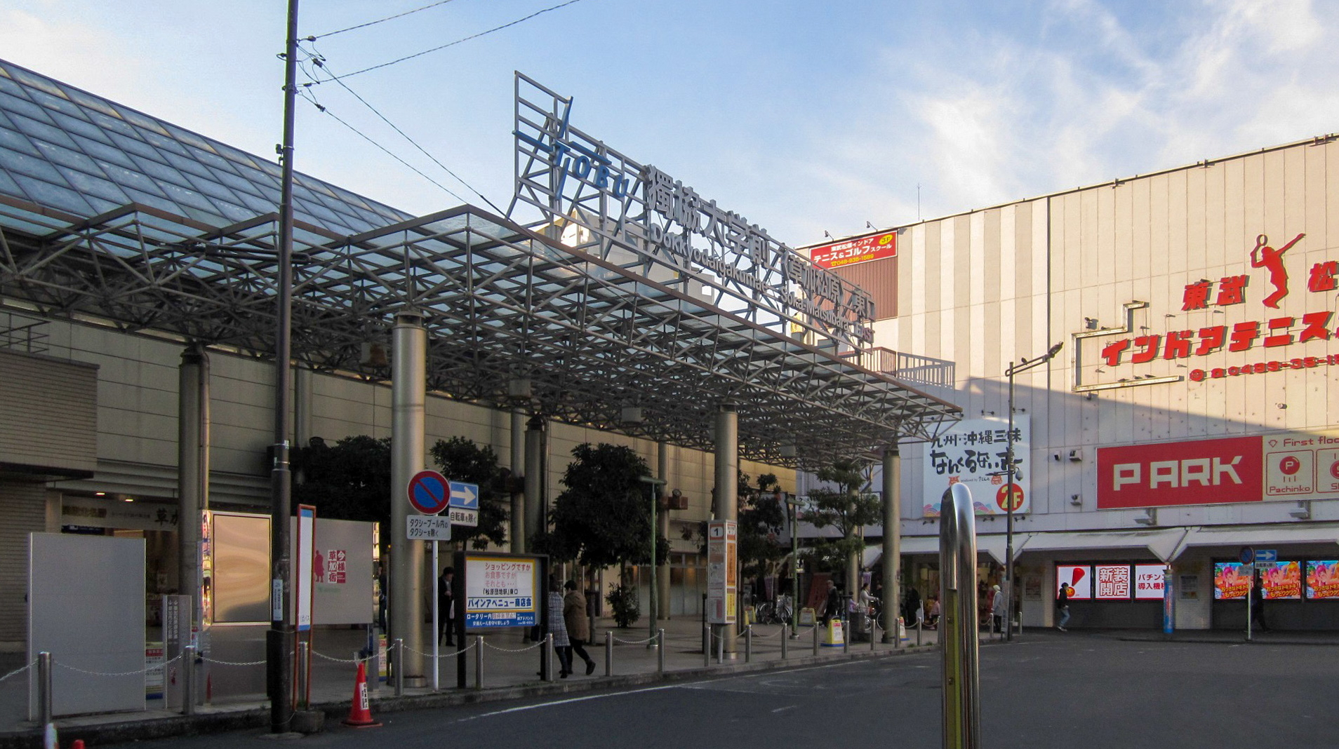 The east side of Dokkyodaigakumae Station in Saitama Prefecture, Japan